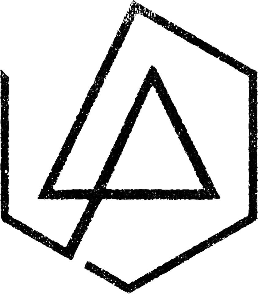 Linkin Park 2017 logo